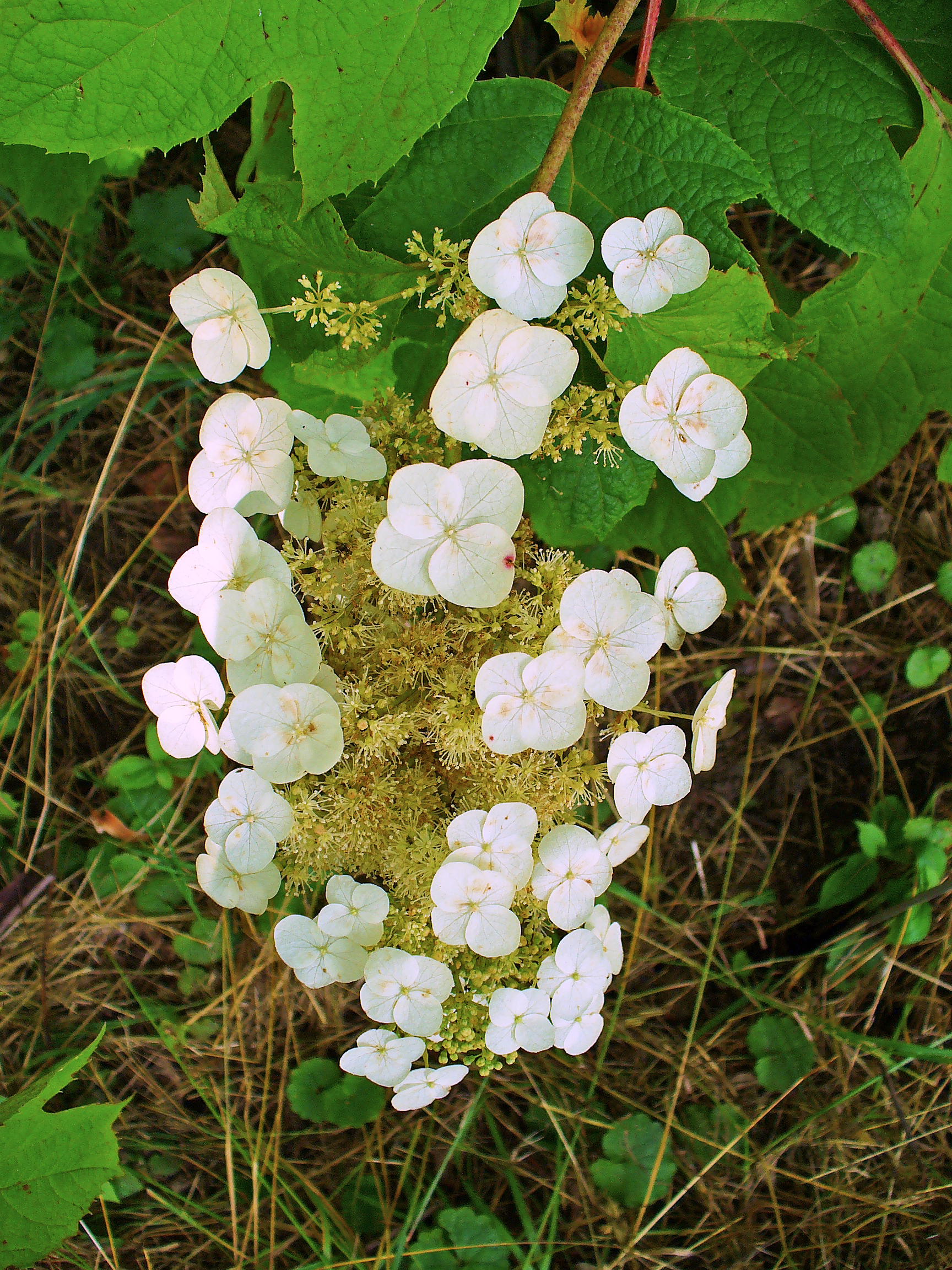 Hydrangea quercifolia, Hydrangeaceae, Oakleaf Hydrangea, inflorescence; Botanical Garden KIT, Karlsruhe, Germany.